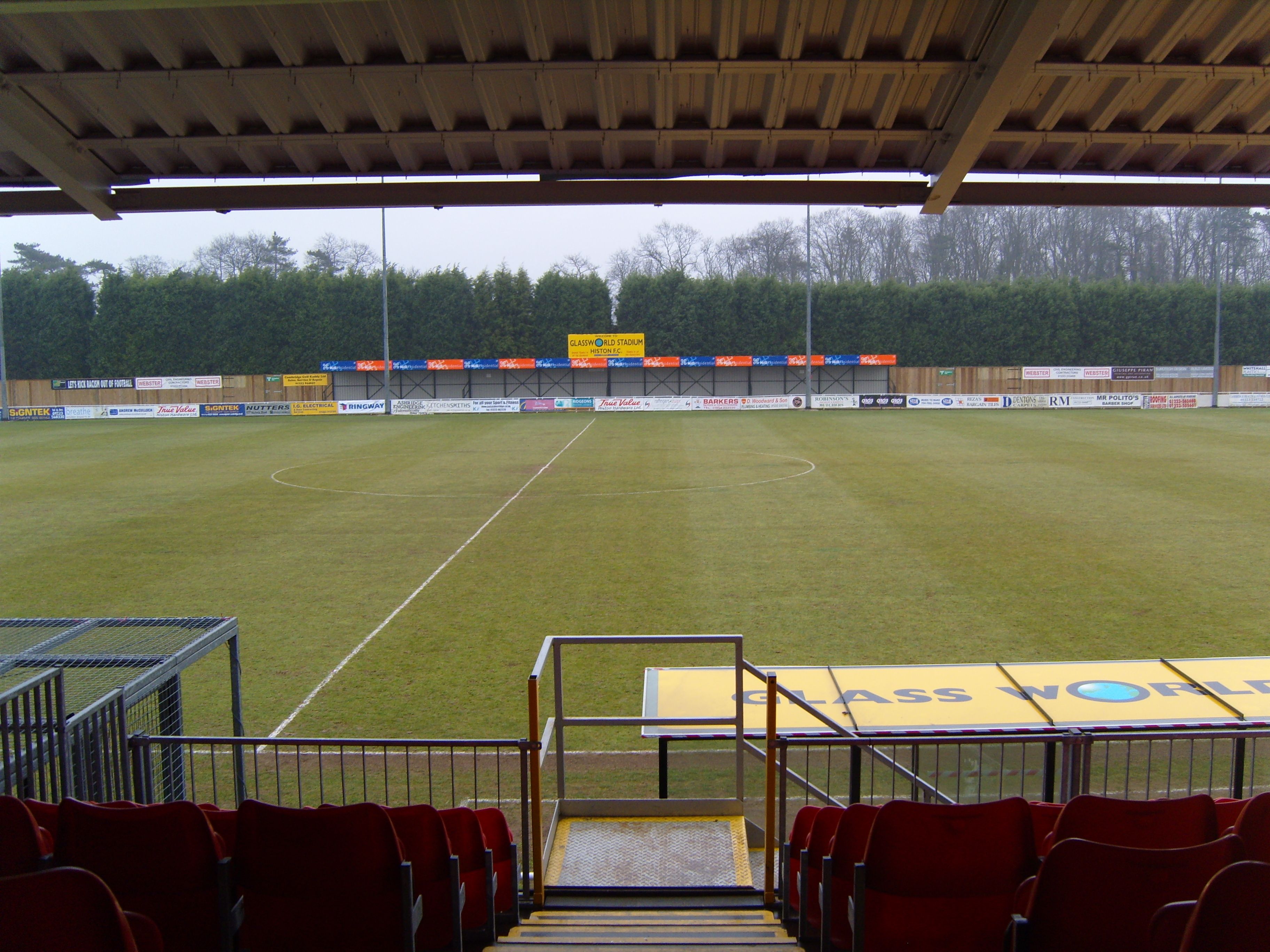 View from main grandstand at The Glassworld Stadium. Since taken, the Terrace has been modified with seats put in.